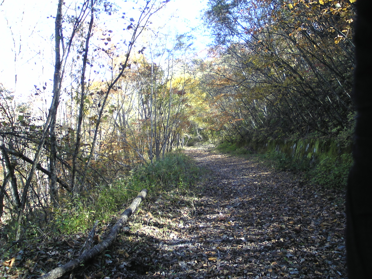 The Mikabo Super Forest Road